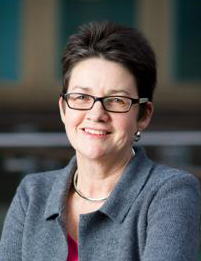 Portrait released in support of on-going improvement to Wikipedia articles, refer to